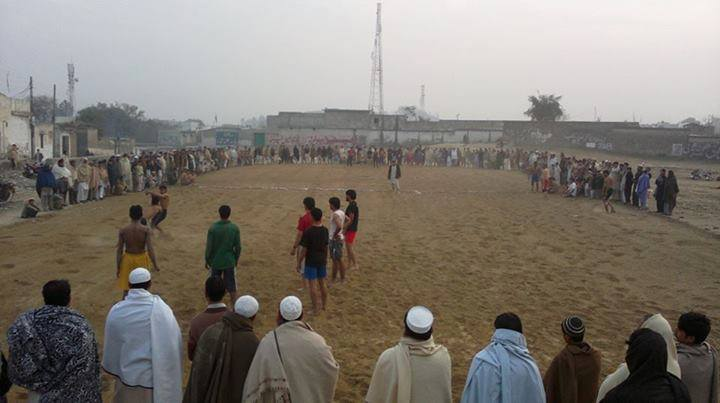 Maini in Pakistan: Kabaddi (a local game played at the arrival of winter)